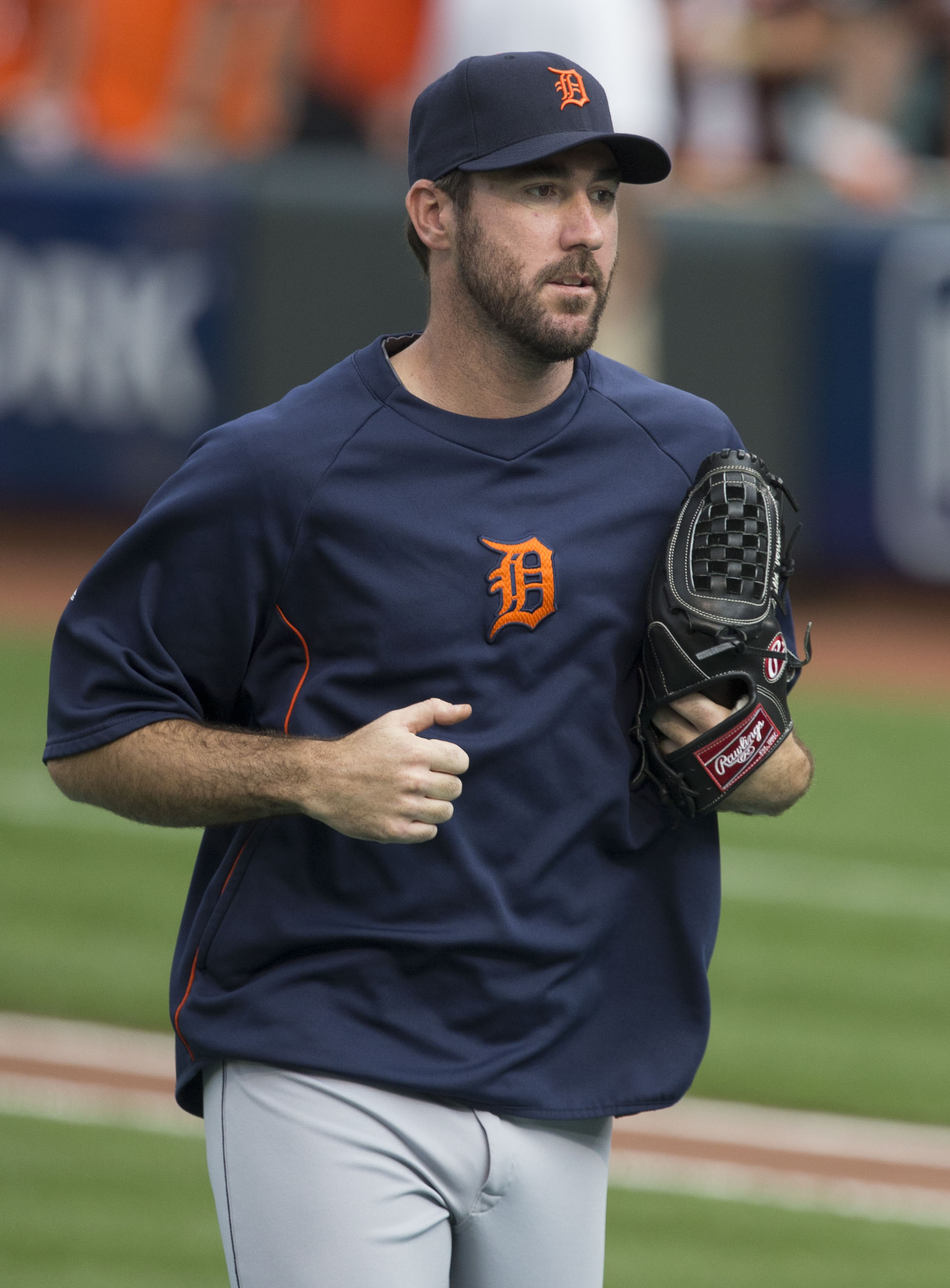 Tigers at Orioles 10/2/14 ALDS Game 1